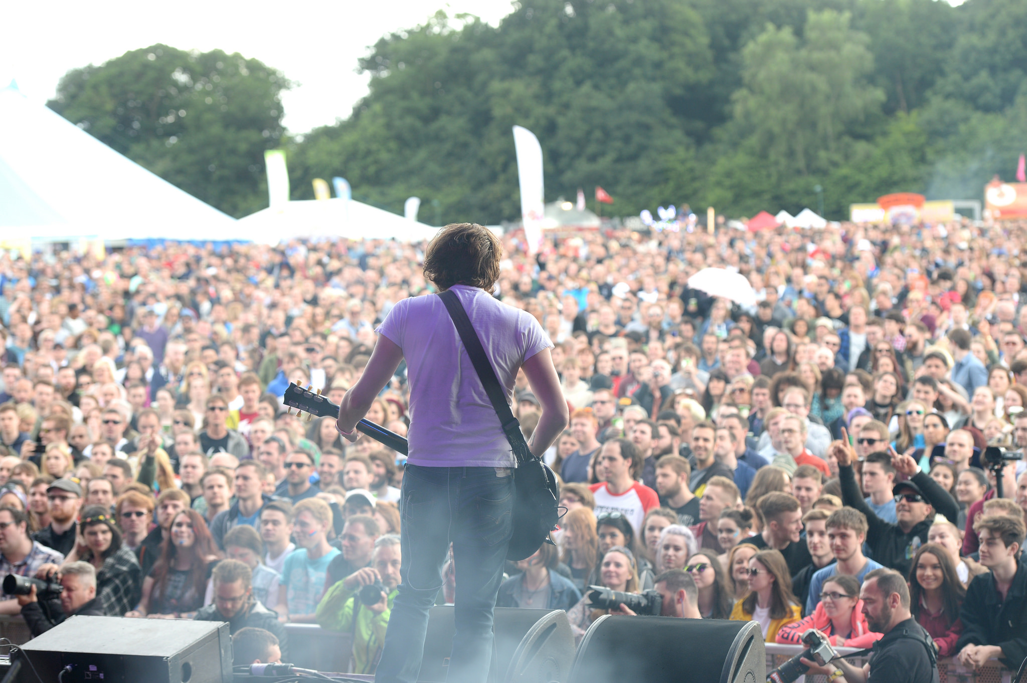 A picture taken from the Main Stage on Saturday 2 July 2016 at Godiva Festival.